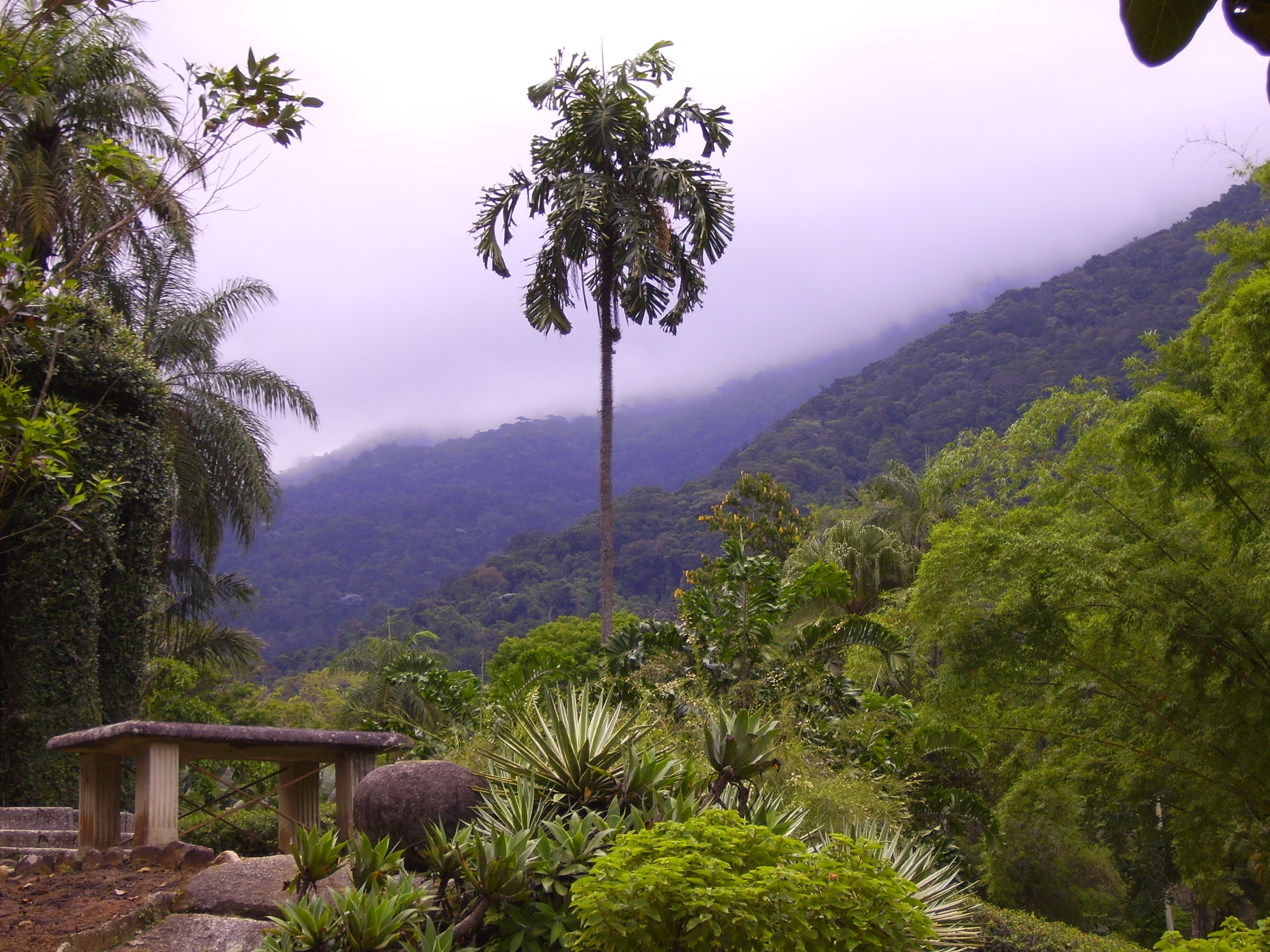 Jungle in Rio de Janeiro, Brazil. View from the Jardim Botanico.